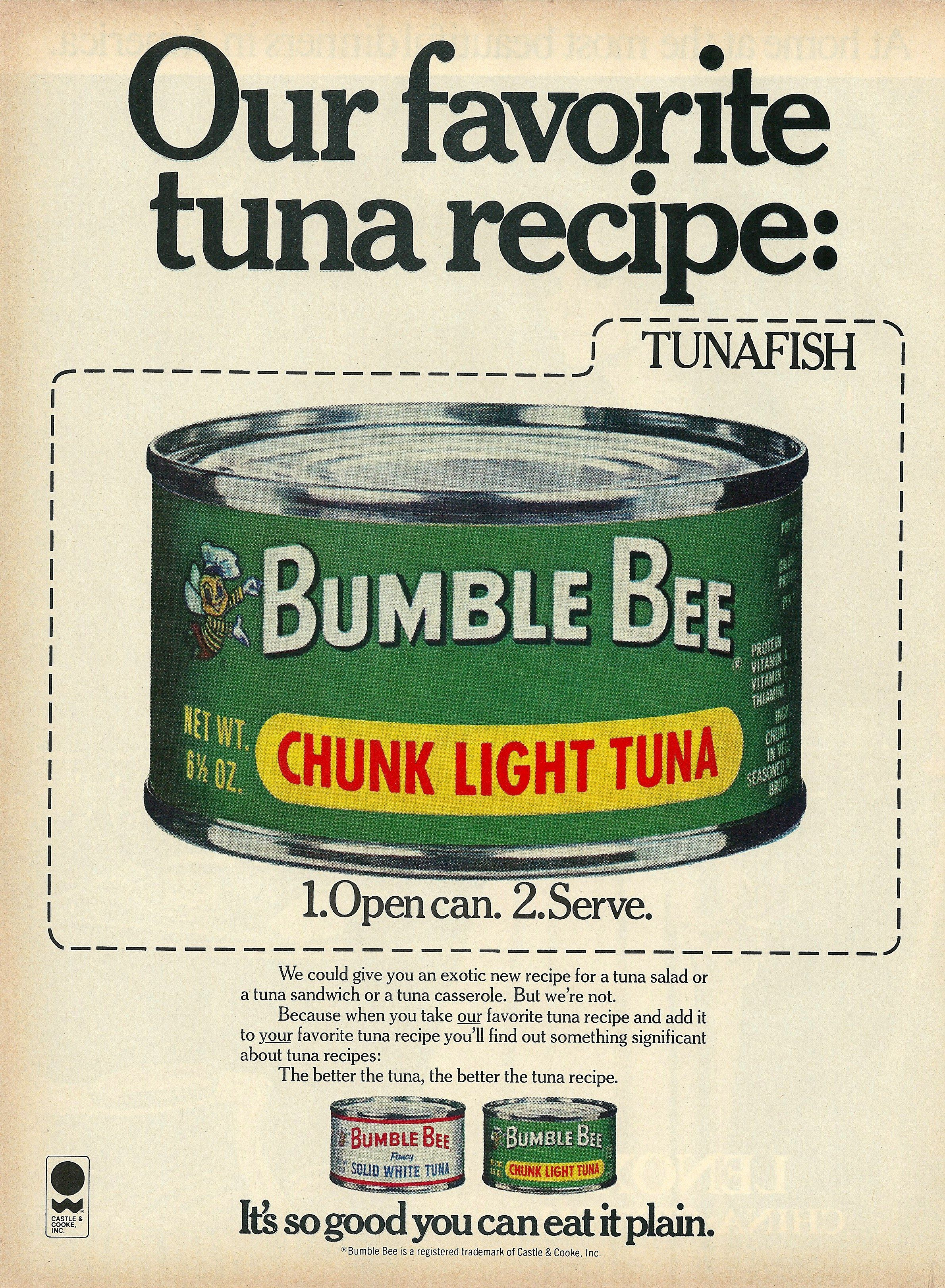 Bumble Bee tuna ad from 1977.